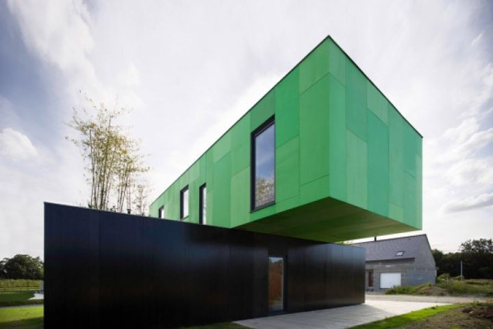 mpdular housing, CG Architectes